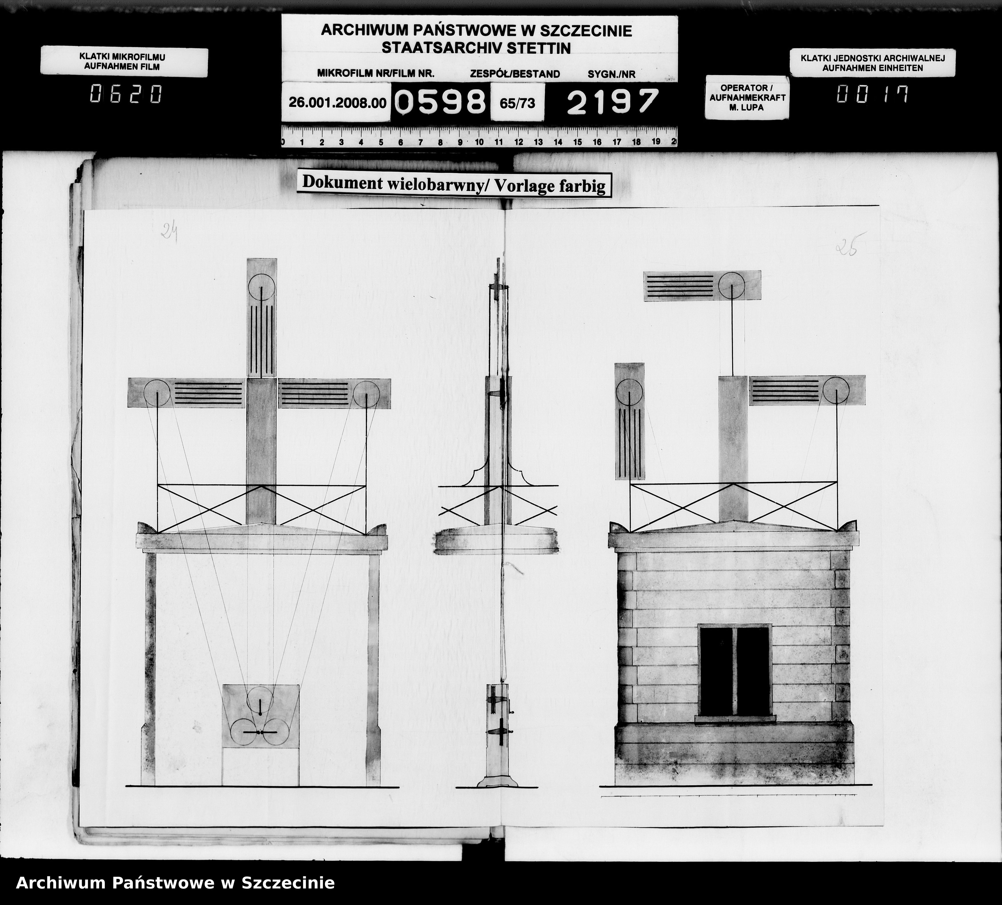 Optical telegraph Szczecin